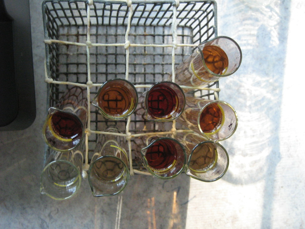 Nessler cylinders. Iron assay.